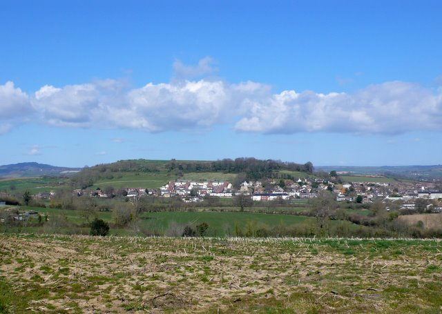 View from Broad Lane Broad lane runs from Bridport to Eype. This is the view north towards Bridport. The houses and hill prominently visible in the centre distance are Allington and Allington Hill , both in SY4593.